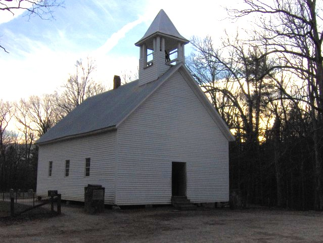 The Cades Cove Primitive Baptist Church, constructed in 1887. The church was founded in 1829.